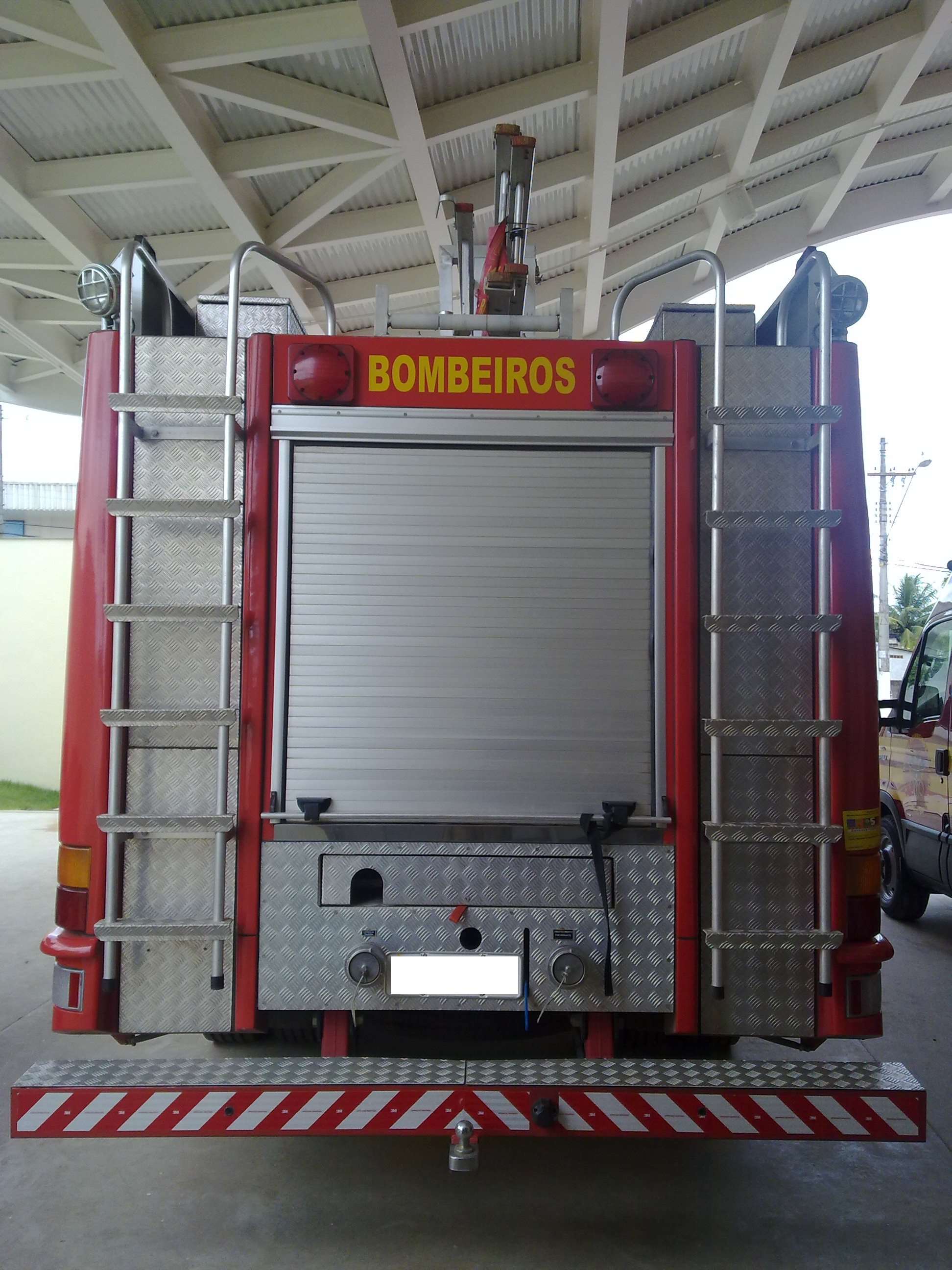 Ford Cargo fire engine.